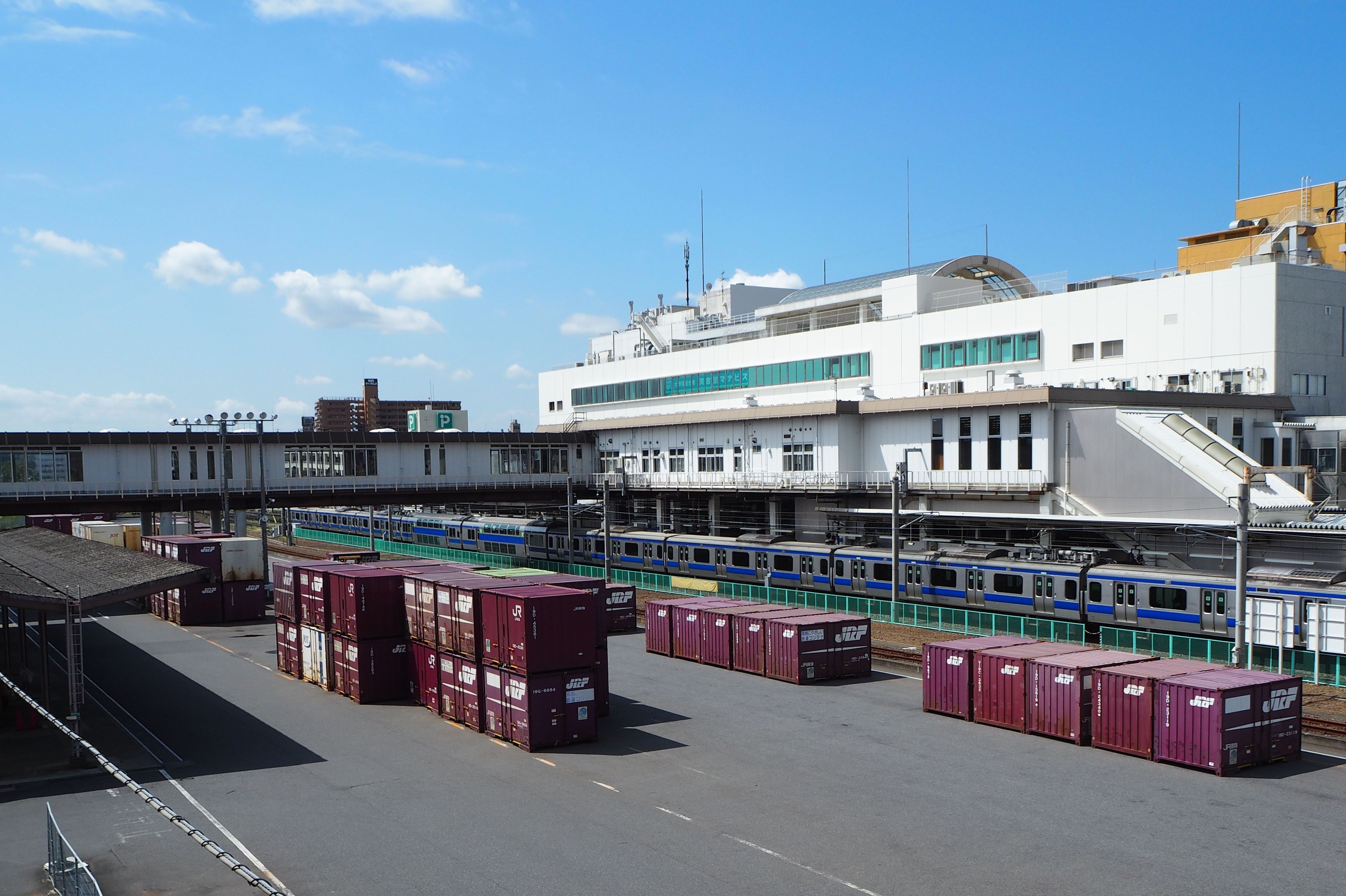 Freight Terminal of Tsuchiura Station